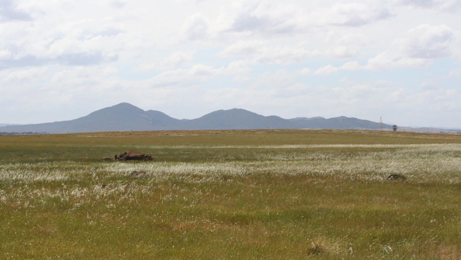 The You Yangs are a series of granite peaks that rise dramatically near Lara, Victoria in the Werribee lava plains in Australia